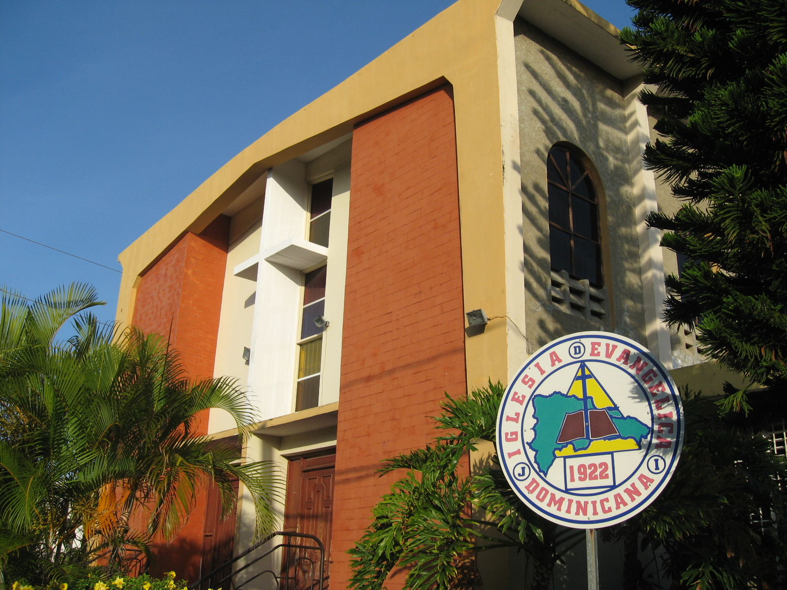 The Dominican Evangelical Church in Puerta Plata, Dominican Republic (June, 2009).